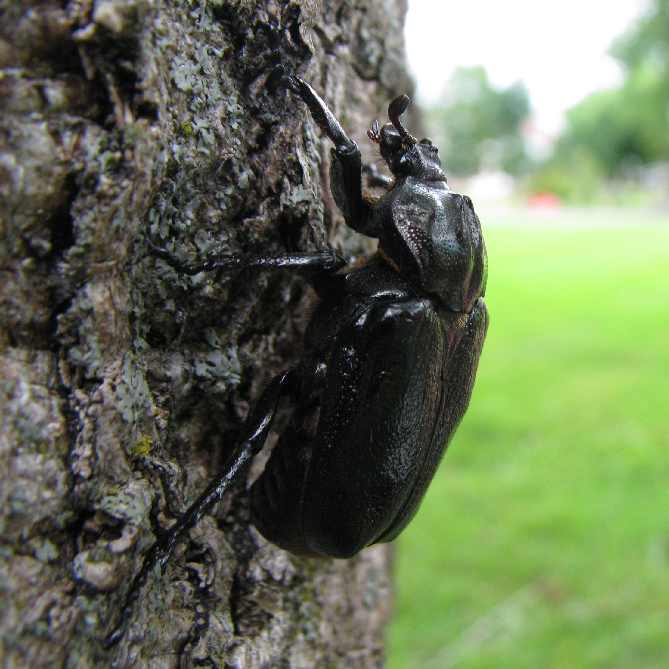 Hermit beetle Osmoderma eremita male. Sitting on the outside to spread their pheromones, lovely peach scent.